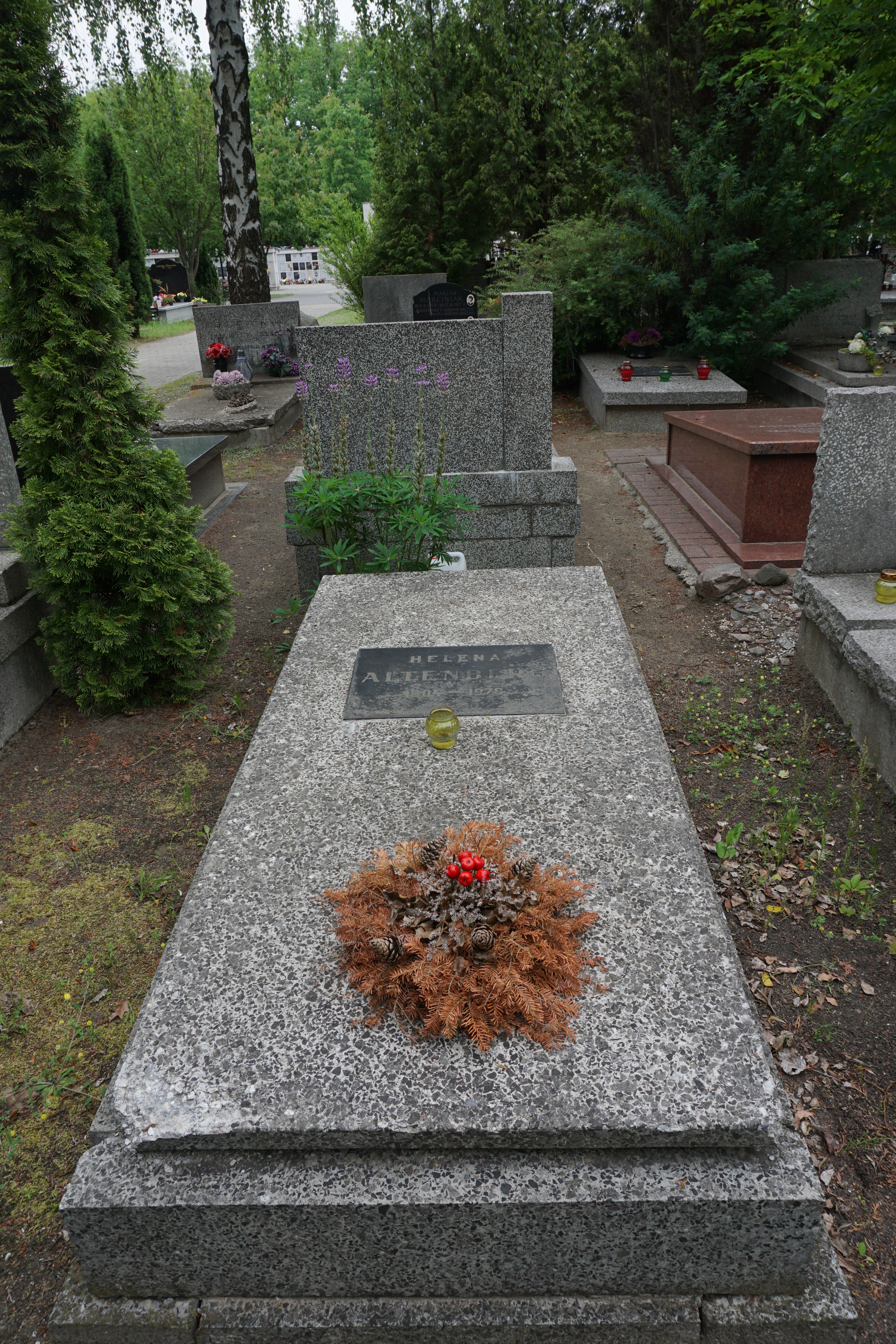 The grave of Helena Altenberg at the North Municipal Cemetery in Warsaw (section E-IV-2, row 4, grave 19)